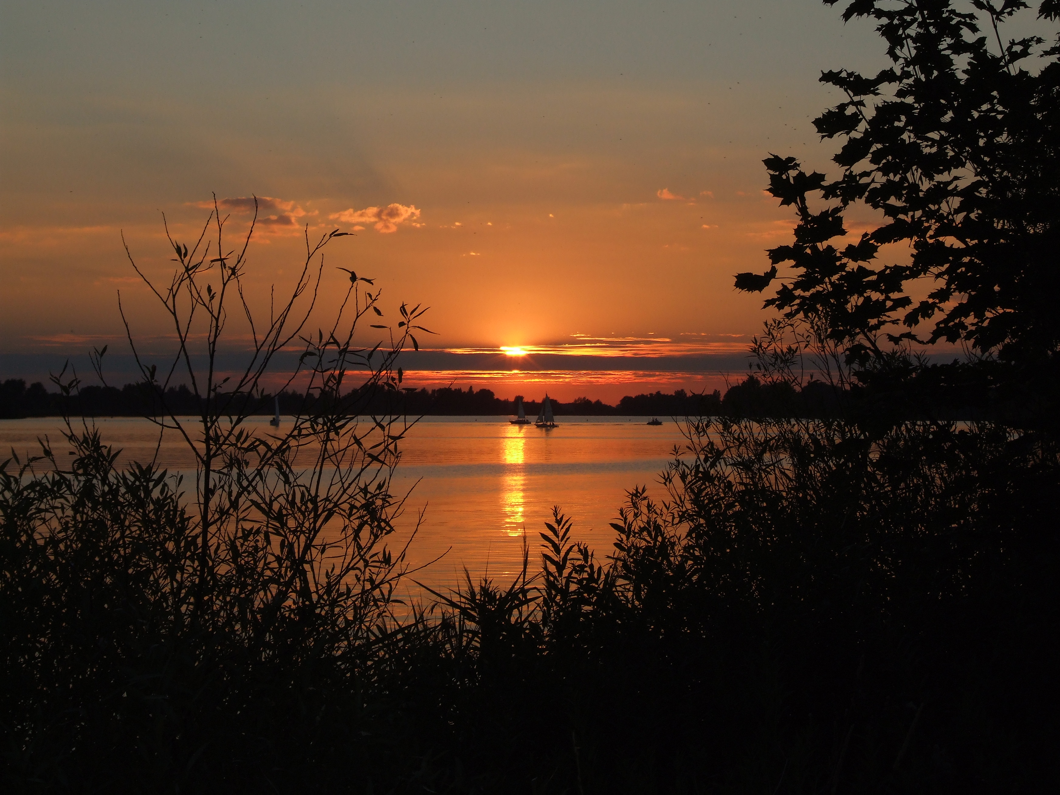 Sunset over "Altmühlsee", Bavaria, Germany